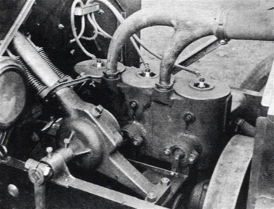 This is the only Okey 3 cylinder engine, used in the Okey L-7 runabout. It is a 2-stroke, 140 c.i. (2.3 litre) unit delivering 22 bhp; with bore × stroke 104.8 × 88.9 mm. This engine is water cooled, and was rated at 20.4 HP ALAM.